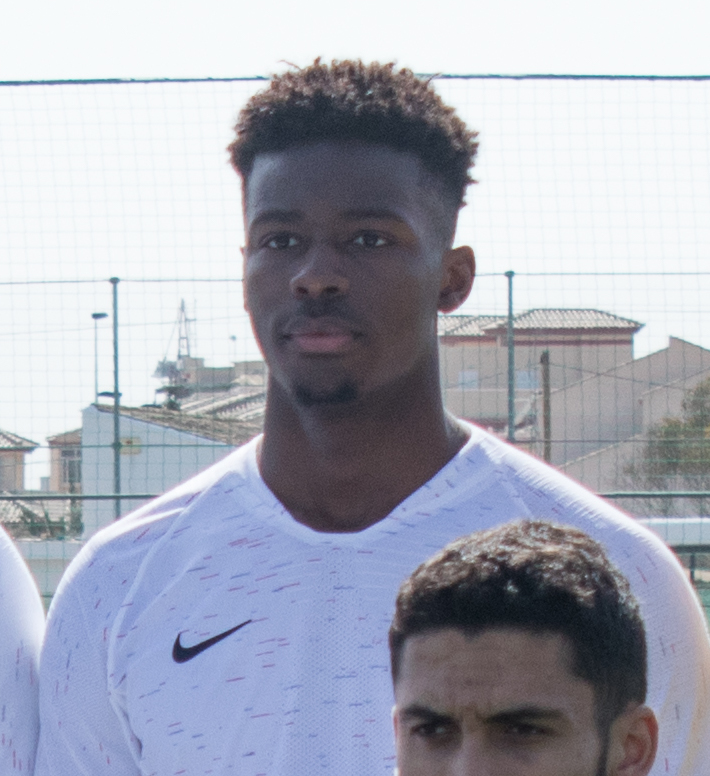 USA U20 v France U20, 22 March 2019